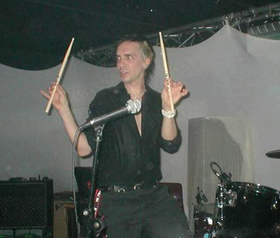 Eddie O'Dowd of Psychic TV live in Cologne, Germany, 2004